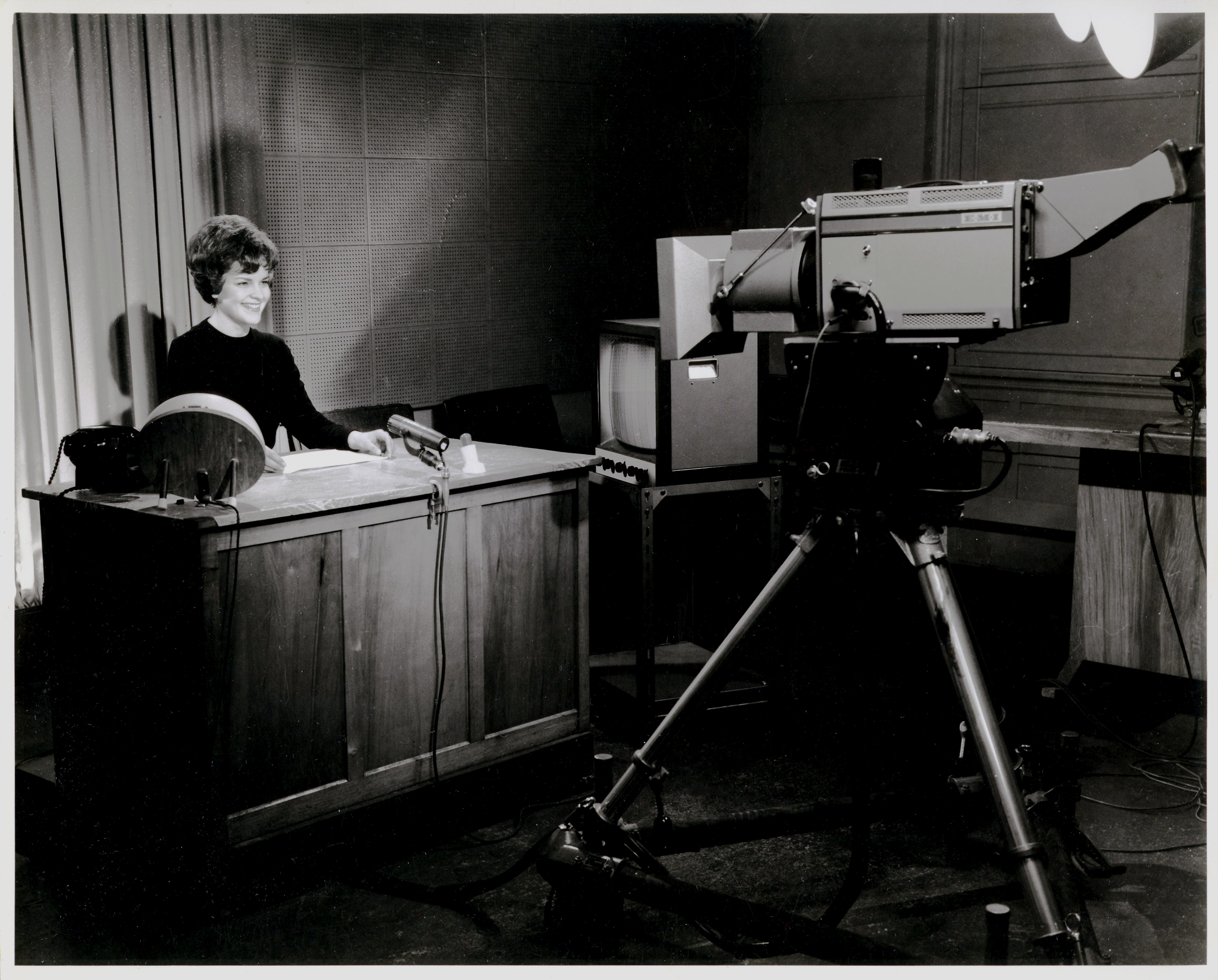 Title: TV, studios [22 photographs] Archives reference: AAFH 7304 W4771Box 2 / p B41-1457 At 7.30pm on 1 June, 1960, New Zealand’s first official public television broadcast was transmitted from Central Auckland. Although it could initially only be watched in Auckland, the other main centres eventually followed. By August 1962 TV shows were also streaming from stations in Wellington, Christchurch and Dunedin. The undated photograph above shows the New Zealand Broadcasting Corporation (NZBC) filming in one of its studios. The image is from a photographic series of radio and television broadcasting in New Zealand in the 20th century. They include material from the early years of television services and the NZBC. The prints depict artists and sets, studios and broadcasting equipment, and current events like the opening of the Mt Kaukau station and the opening of parliament in 1965. Created by the New Zealand Broadcasting Corporation and transferred to Archives New Zealand from the State Services Commission. Caption information from NZ History: For further enquiries please For updates on our On This Day series and news from Archives New Zealand, follow us on Twitter Material from Archives New Zealand